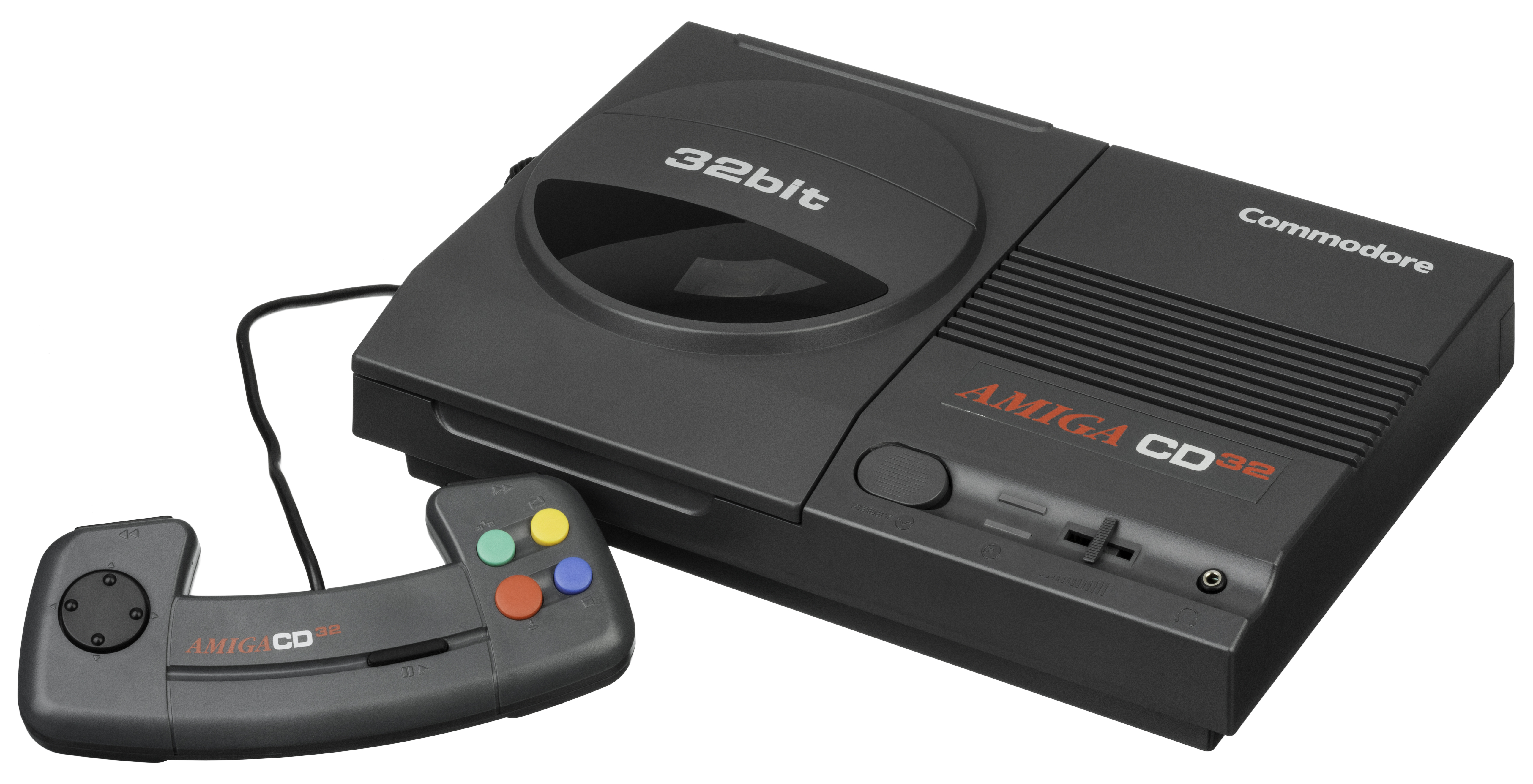 The Amiga CD32, a 32-bit, CD-ROM based video game console from Commodore, with one controller. Released in 1993 in Canada, Europe, Australia and Brazil, it turns the Amiga computer line into a dedicated gaming console.